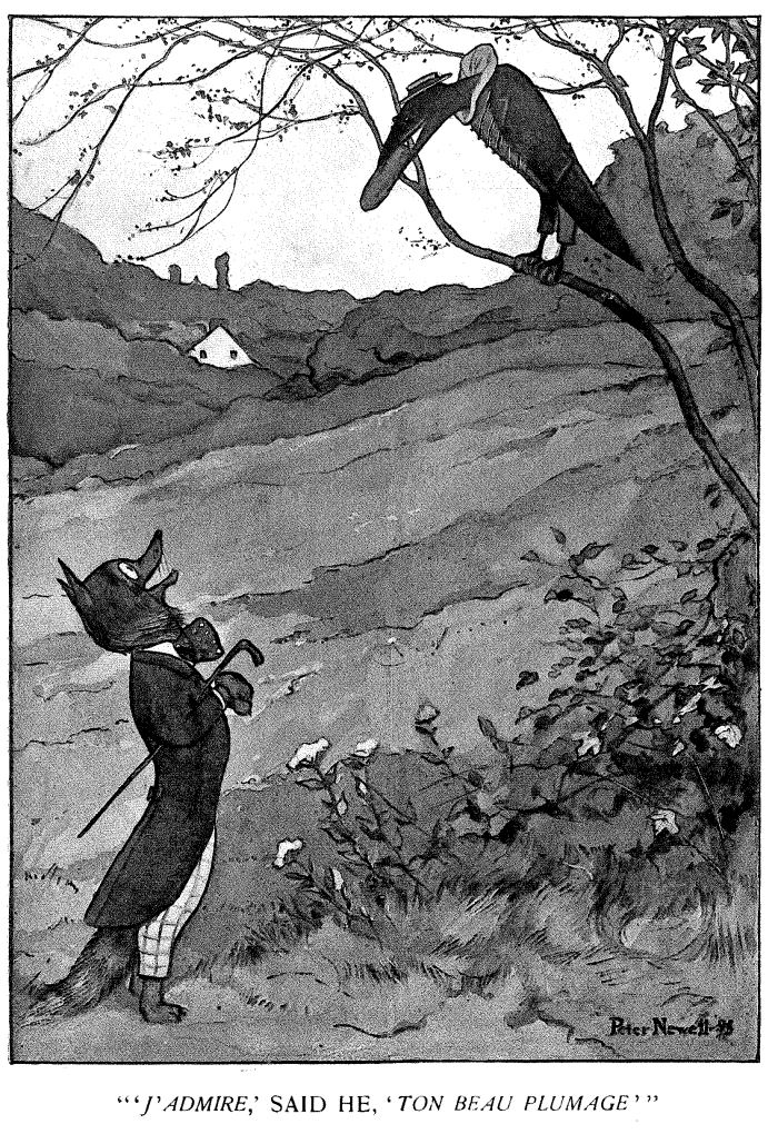 Illustration from Fables for the Frivolous by Guy Wetmore Carryl, with illustrations by Peter Newell. This is an illustration for the poem “The Sycophantic Fox and the Gullible Raven”. It appeared facing page 82 in the 1898 publication of the poems.